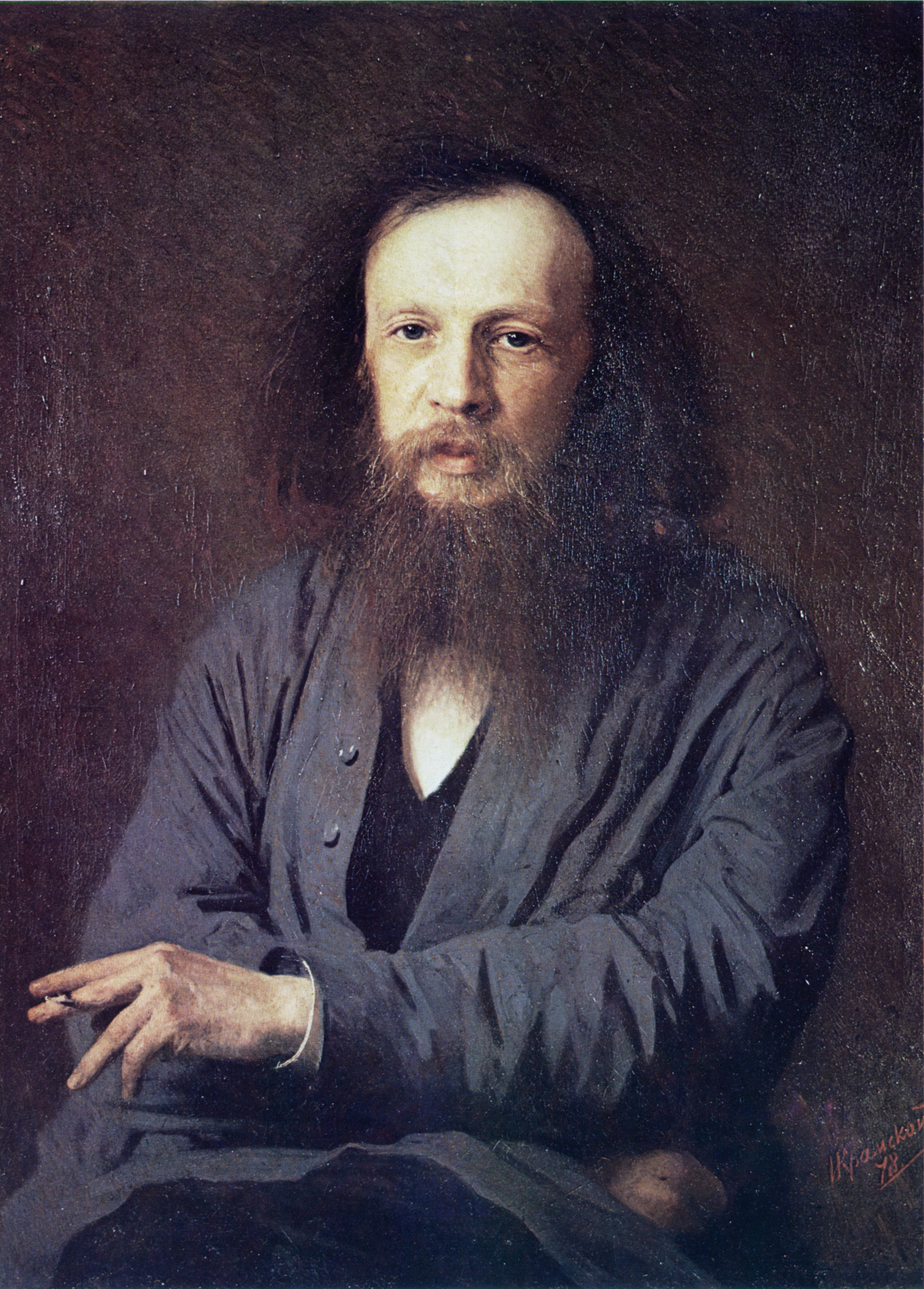 D. I. Mendeleev